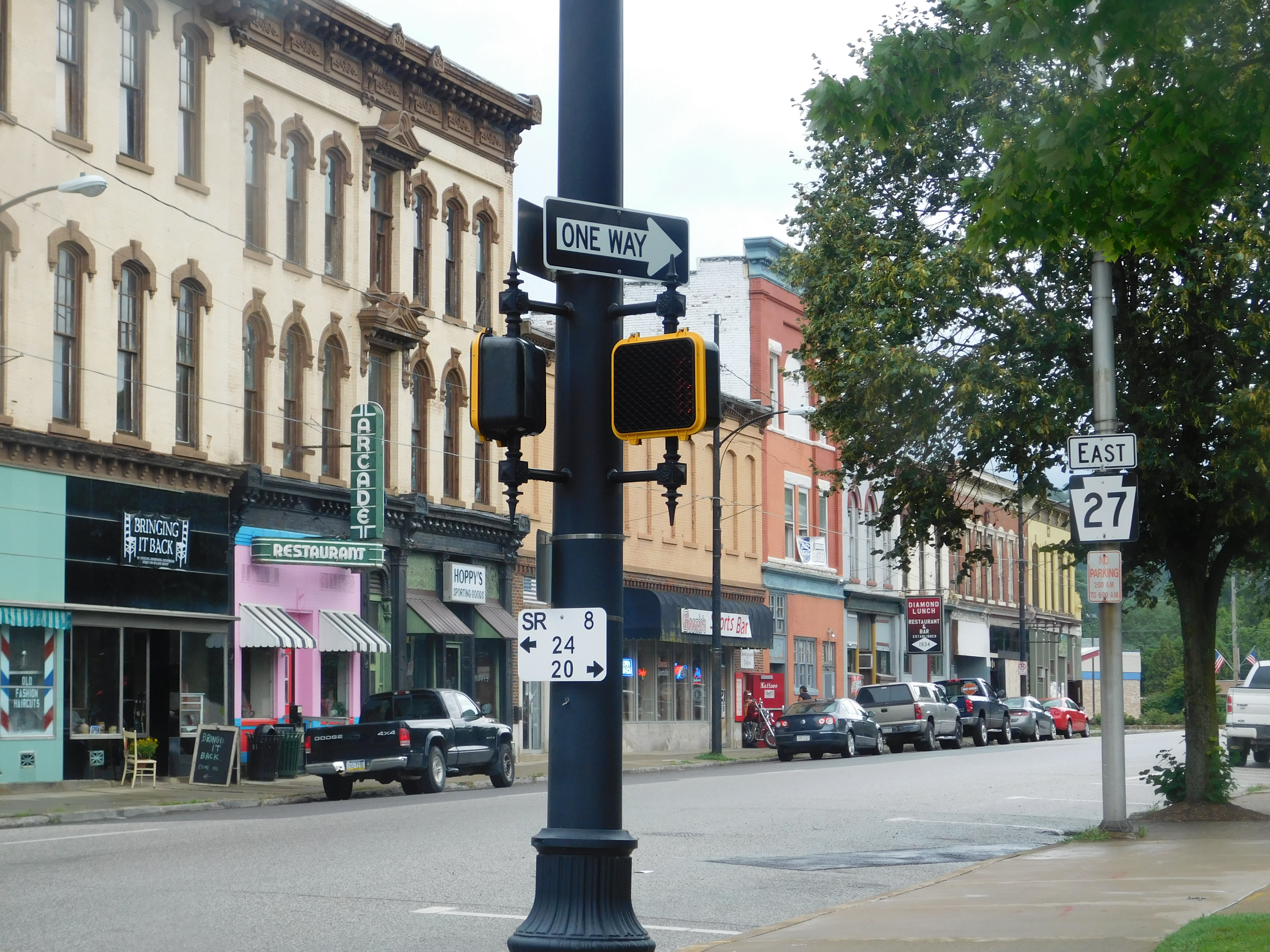 PA 27 eastbound through Titusville, Pennsylvania